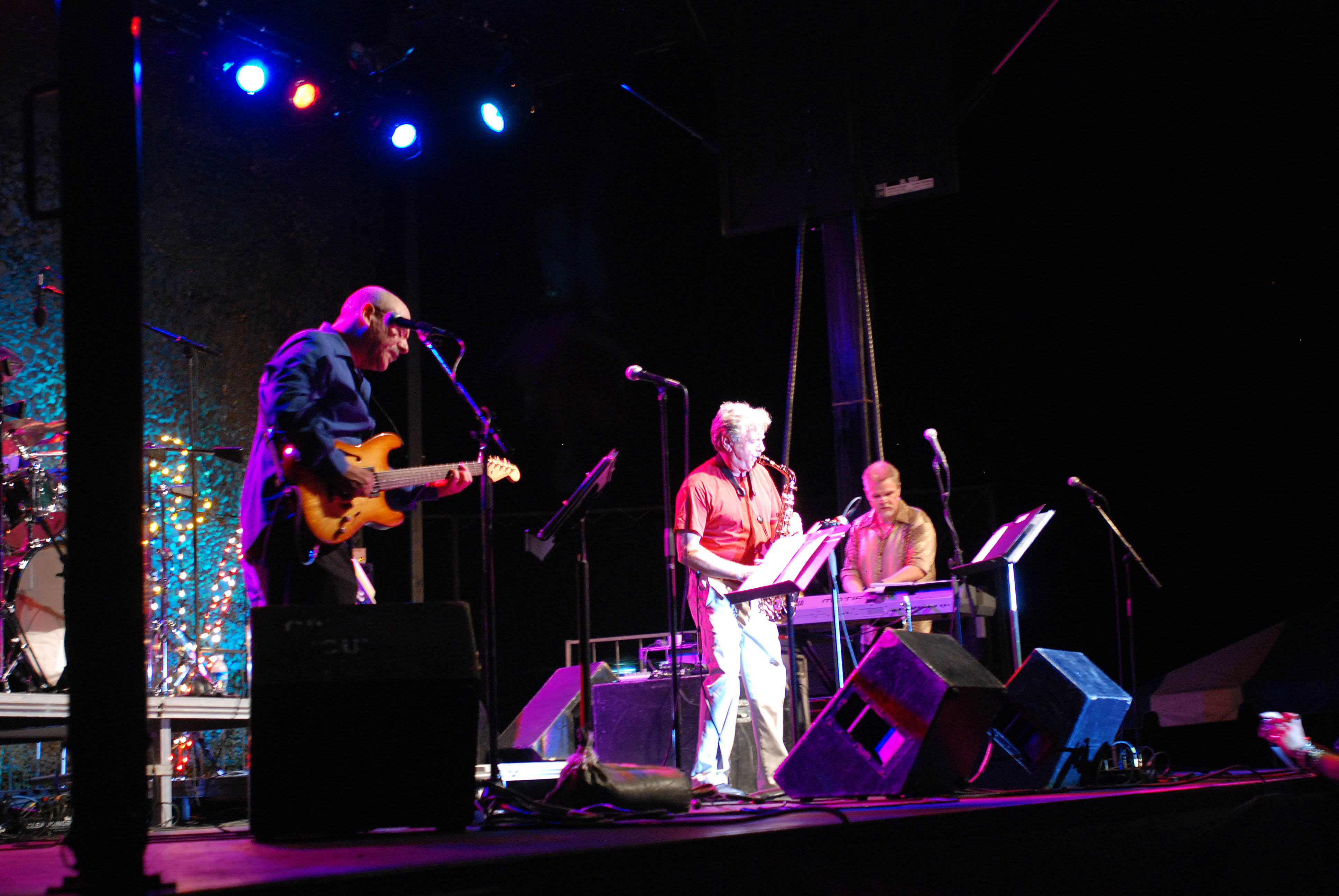 Guantanamo Bay, Cuba – Members of the jazz band Spyro Gyra perform at U.S. Naval Station Guantanamo Bay, Dec. 7, 2009. The band entertained Joint Task Force Guantanamo service members, civilians and family members with familiar Christmas tunes.